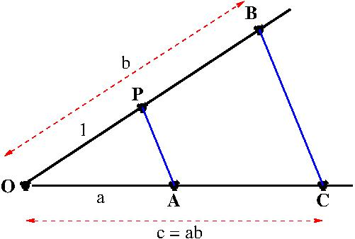 Geometric construction of multiplication of two numbers a and b